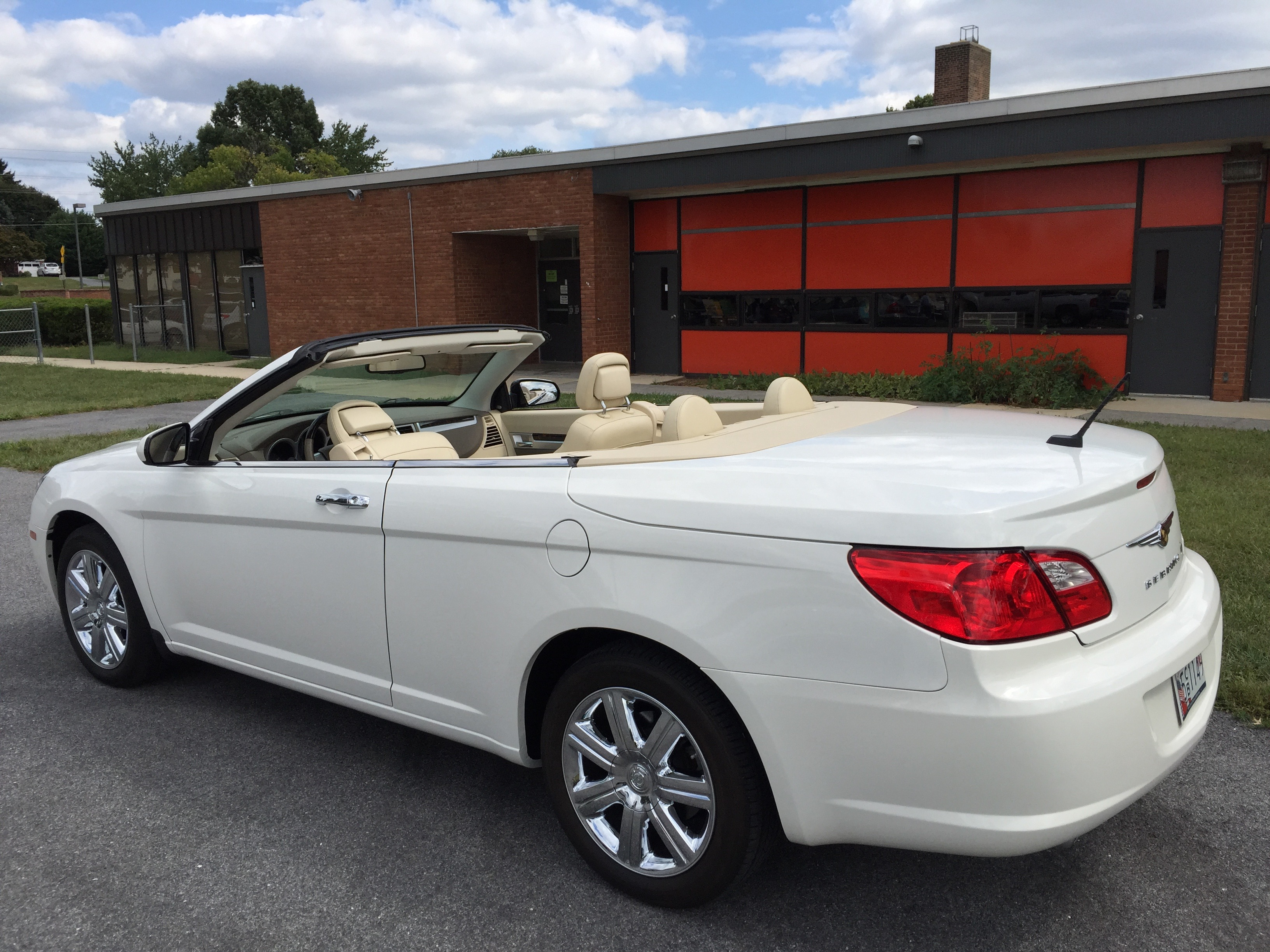 Chrysler Sebring convertible (available from 2008 to 2010) finished in white. This is the third generation Sebring built on the JS platform) and is pictured the way convertibles should be: with its top down!